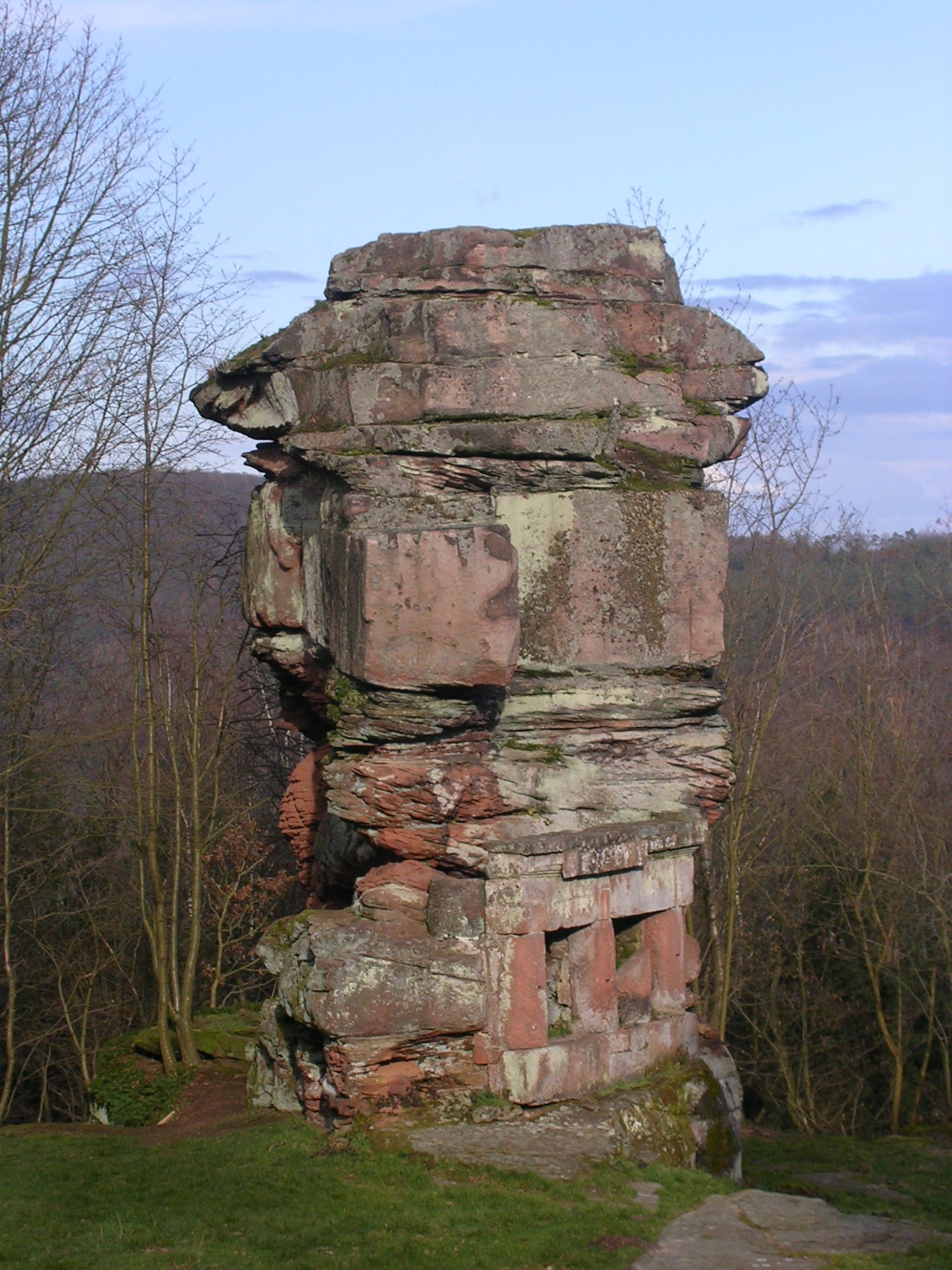 Rock of the Mercury temple, Wasenbourg castle, France